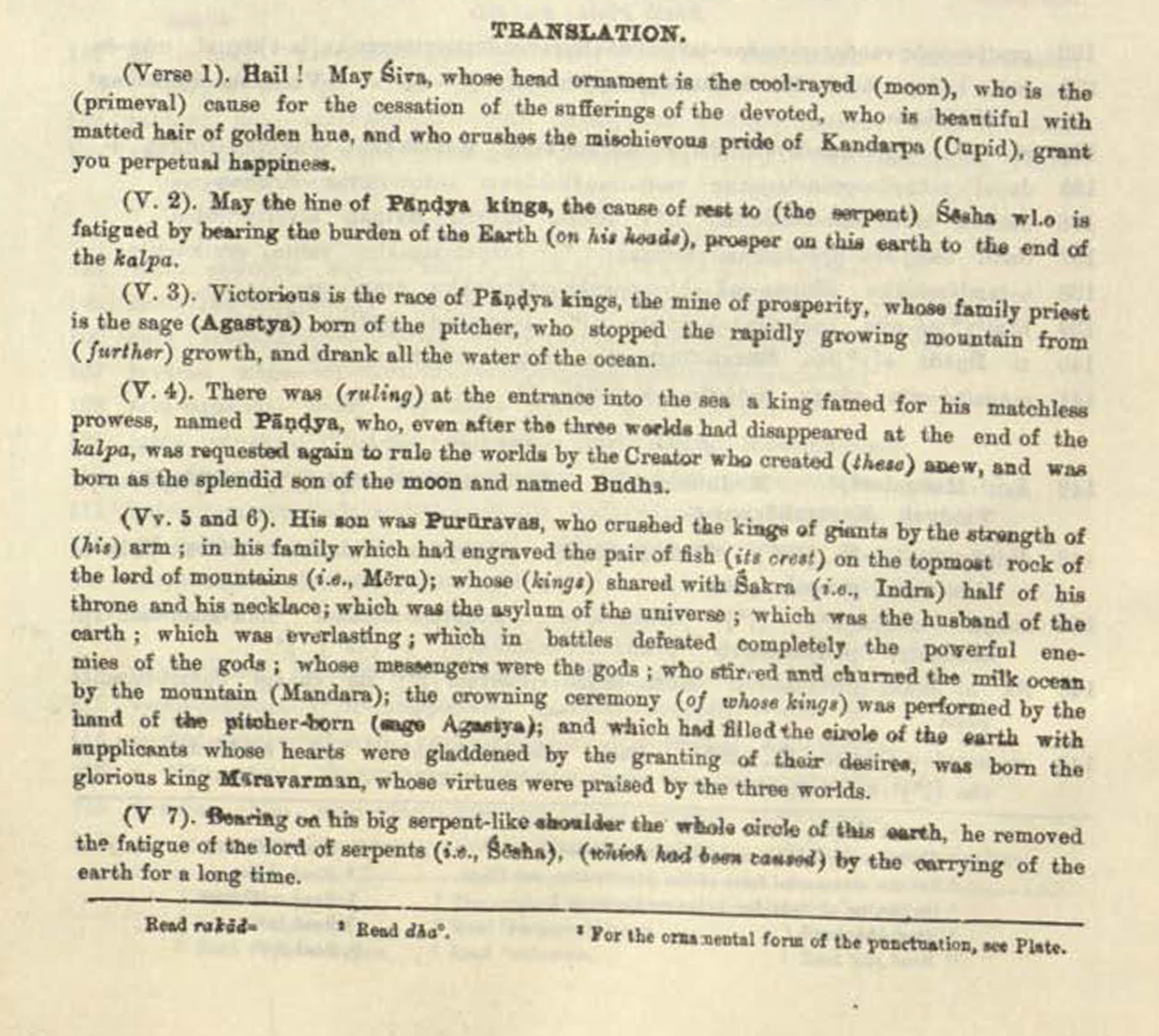 Velvikudi inscription (1)